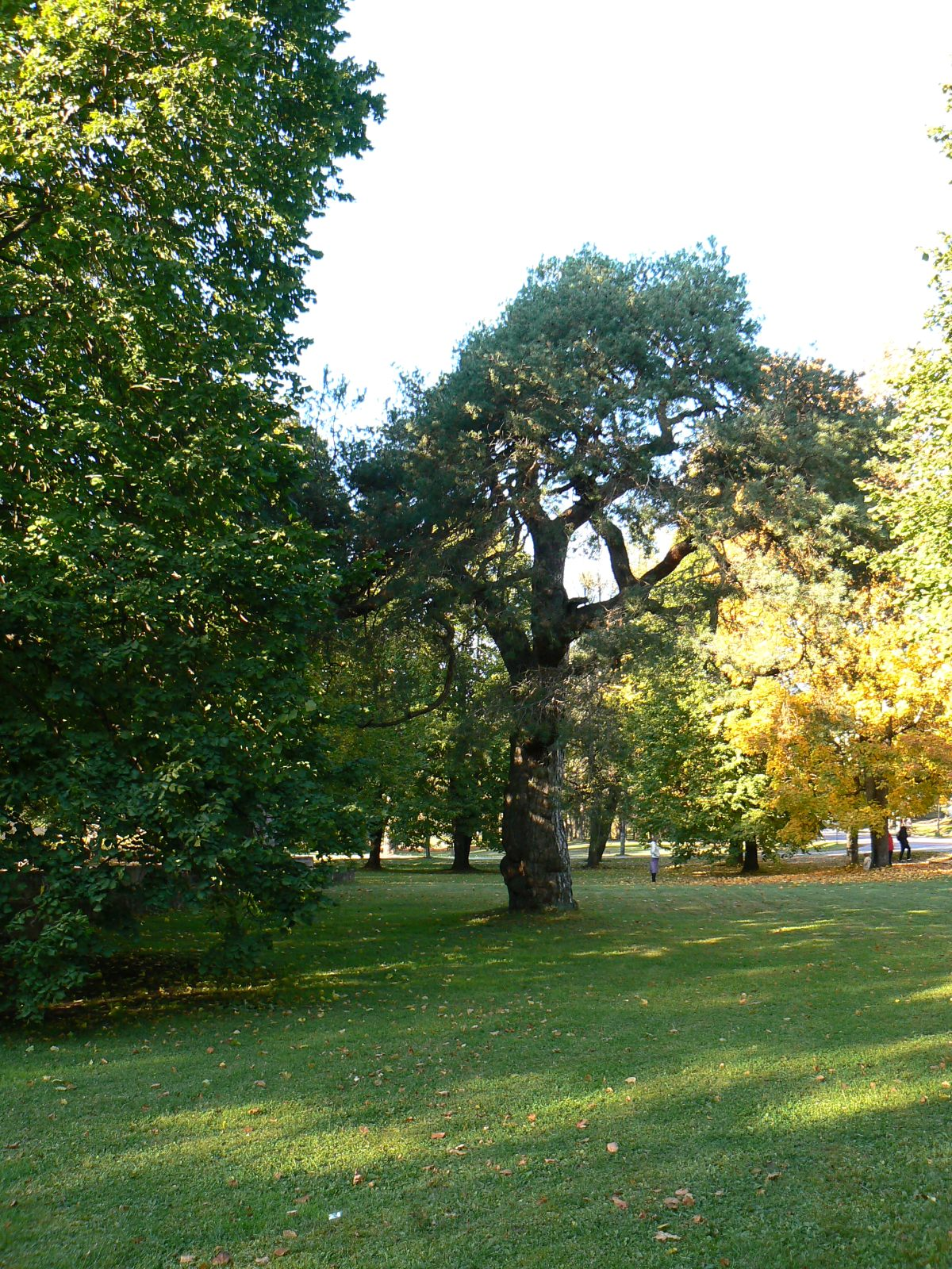 The Kaarli pine in Estonia